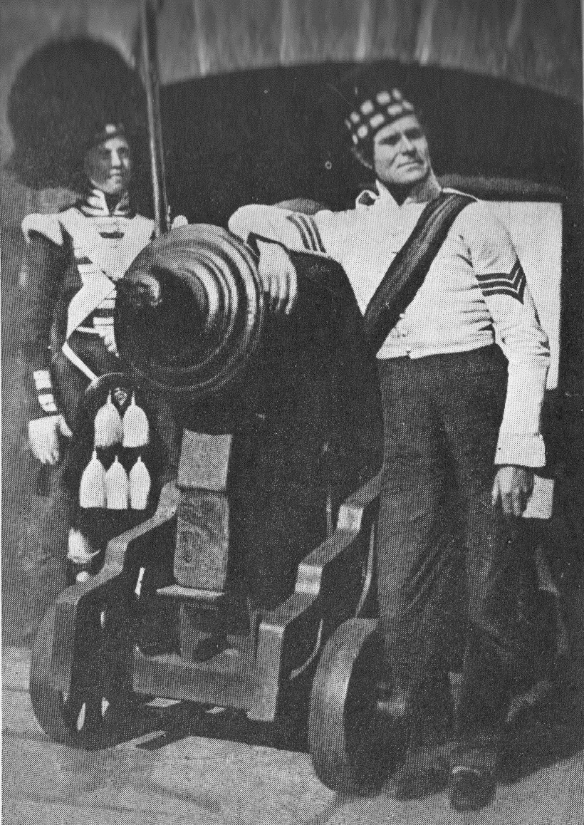 Soldiers of the [Edinburgh] Castle garrison by David Octavius Hill c.1845